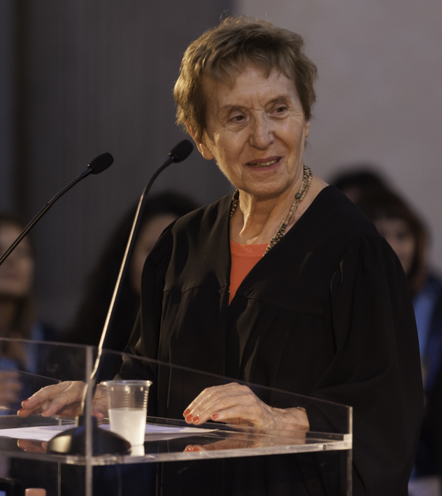 Michelle Perrot, Honoris Causa degree, during her speech.